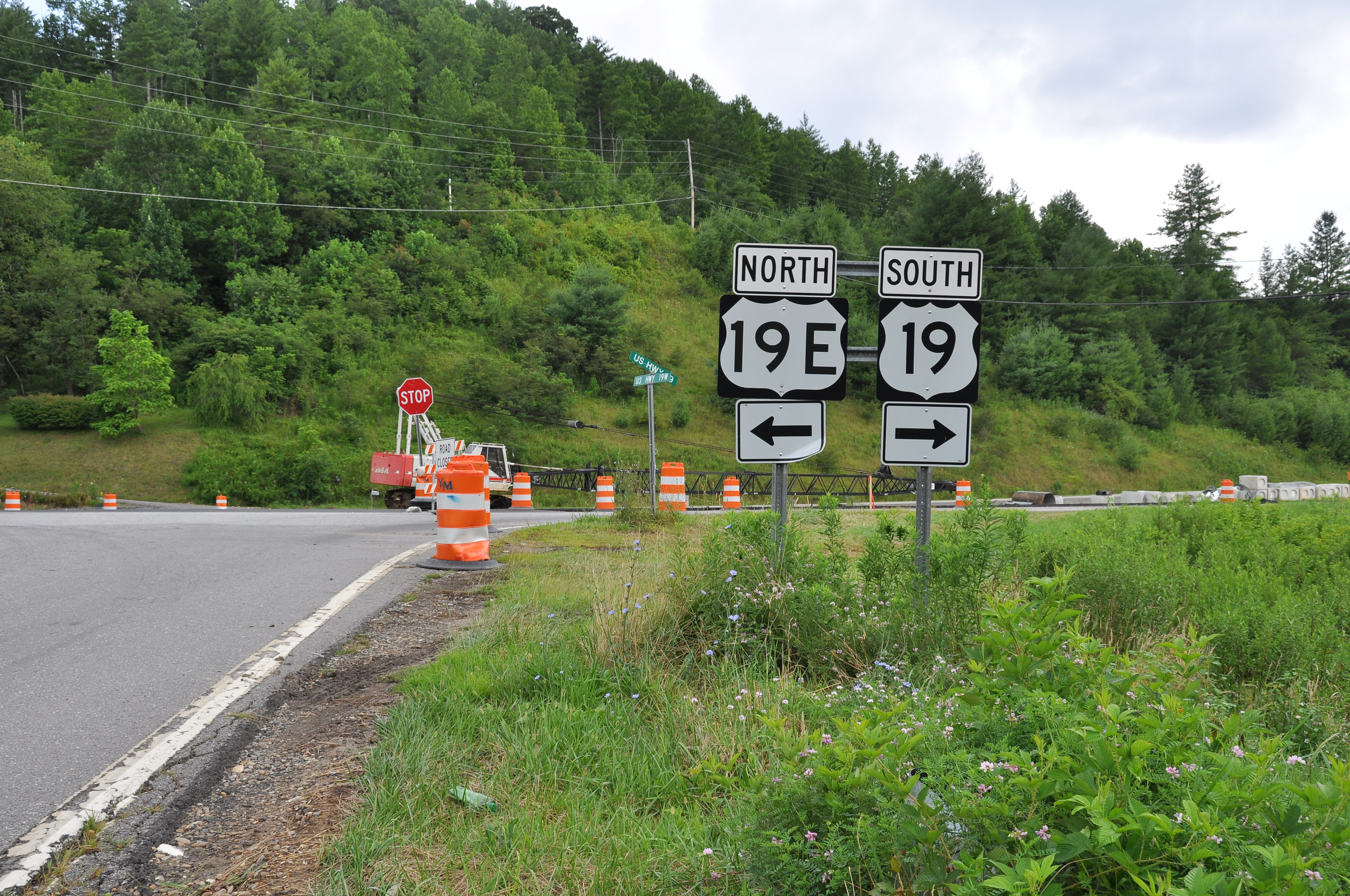 At the intersection where U.S. Route 19W meets with U.S. Route 19 and U.S. Route 19E, in Cane River, North Carolina. At the time of the picture, the main highway was under construction.